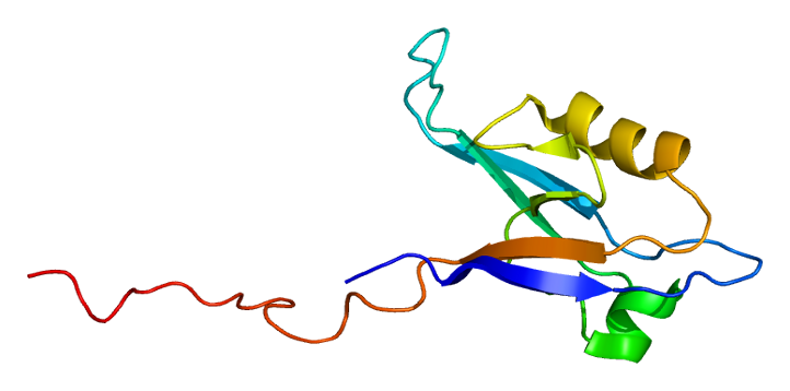 Structure of the PPP1R9B protein. Based on PyMOL rendering of PDB 2g5m.